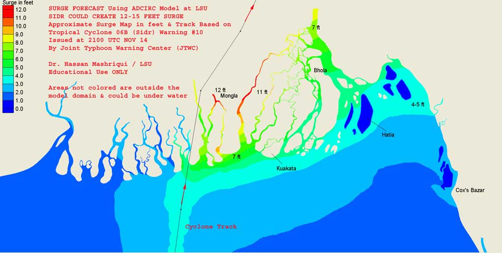 The storm surge model that Dr. Mashriqui developed over a few days, and sent to Bangladeshi emergency management officials in time to warn and evacuate people in the path of Cyclone Sidr.